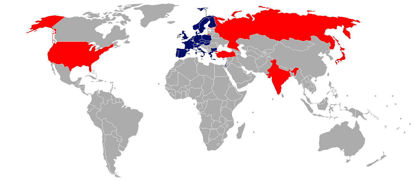 CERN members in navy blue, CERN observers in bright red (European Commission and Unesco are not shown)